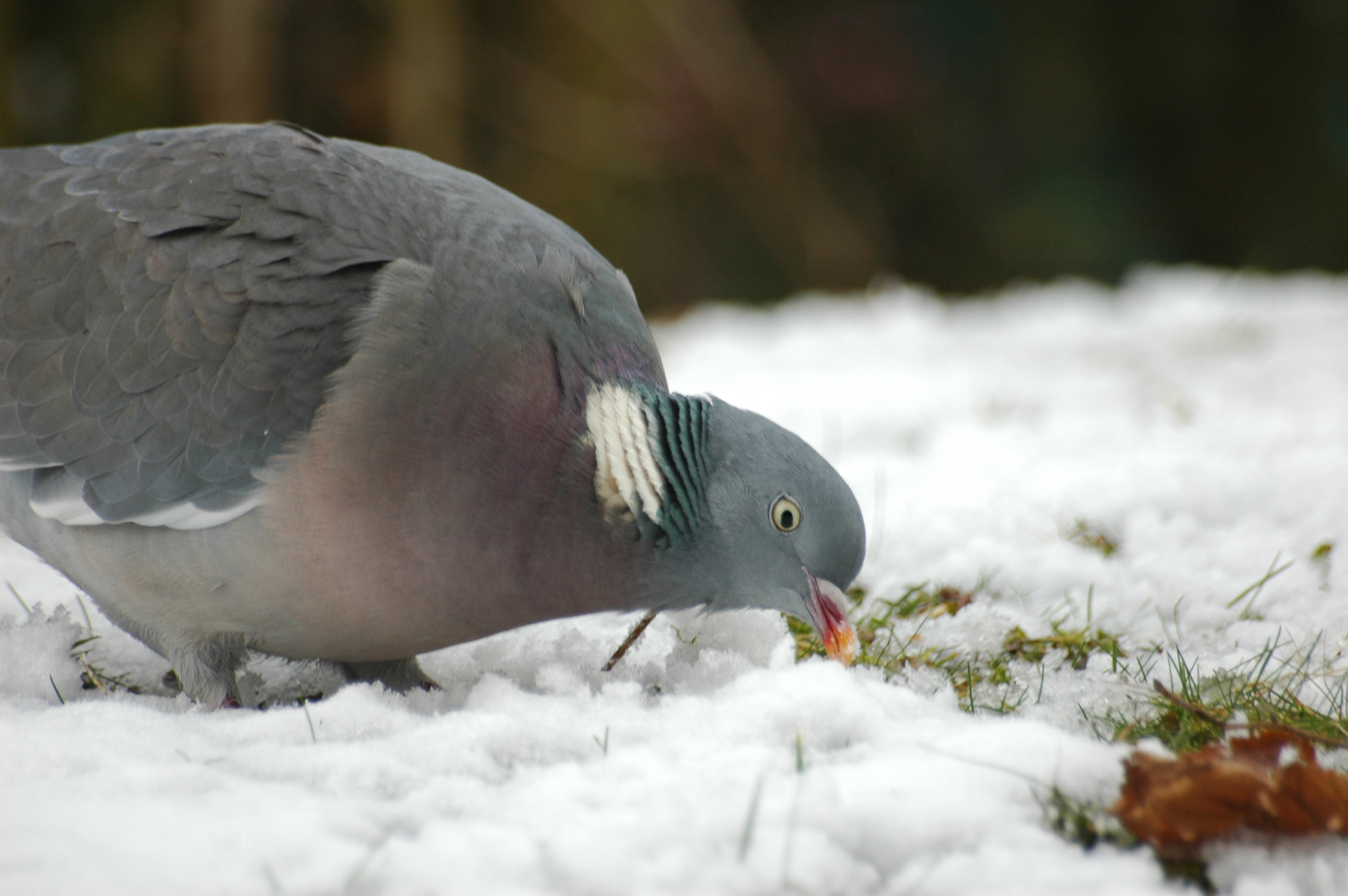 woodpigeon